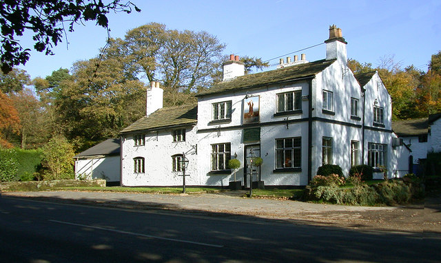 The Wizard